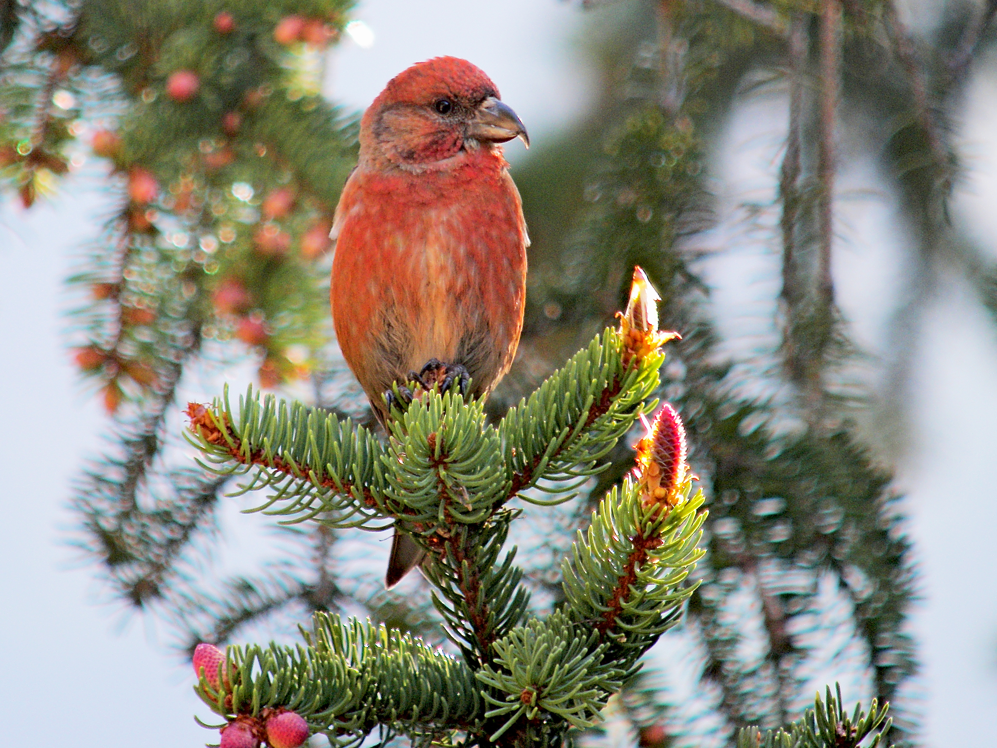 A Common Crossbill in the Karwendel mountains, Austria